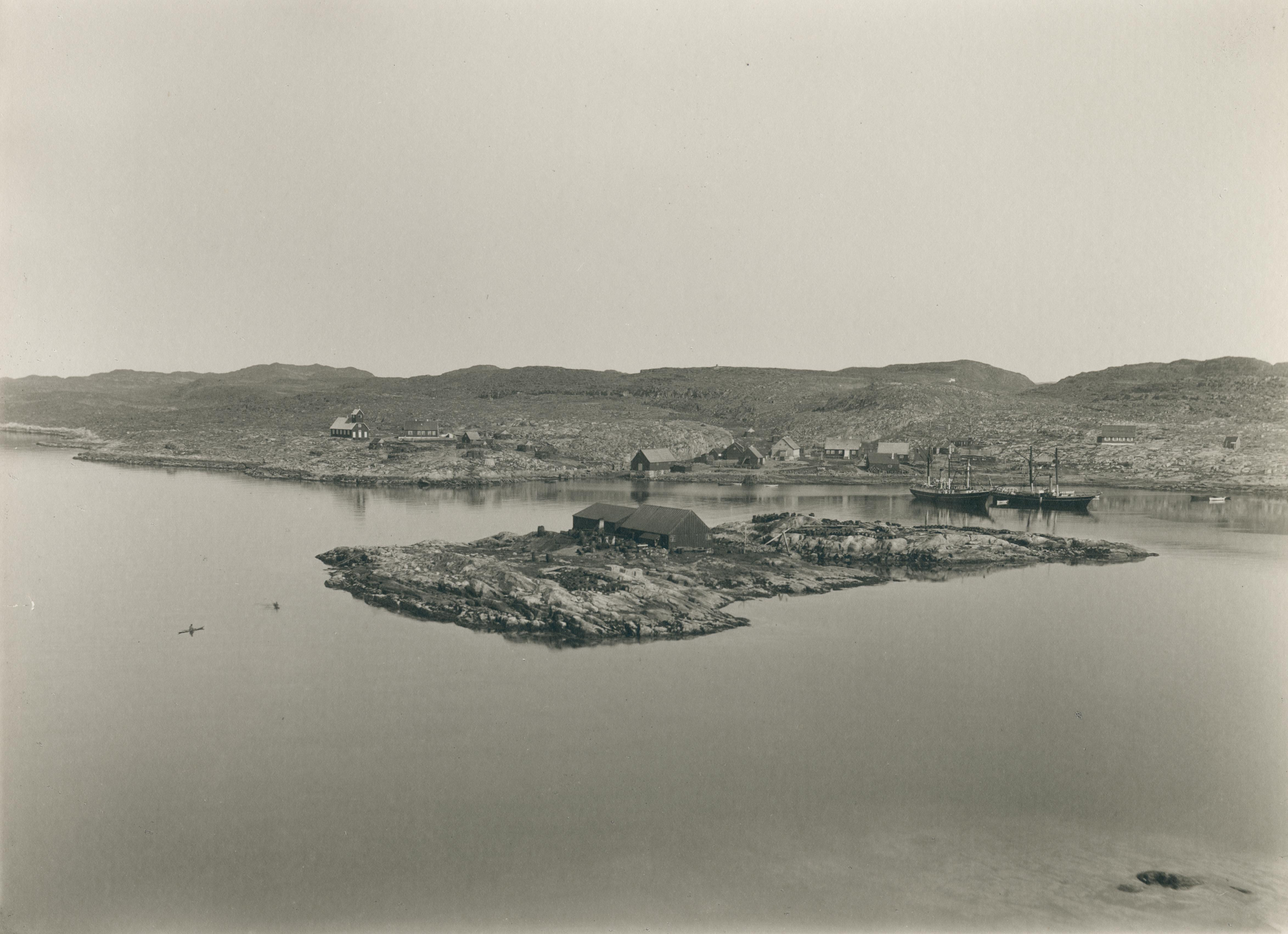 Greenland. The town Egedesminde - Aasiaat - seen from the Fox mountain.